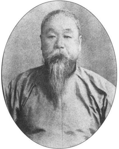 Tang Shouqian, politician of the Qing Dynasty.